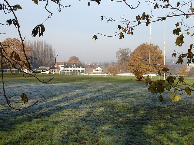 The Mote cricket club. On the western edge of Mote Park.